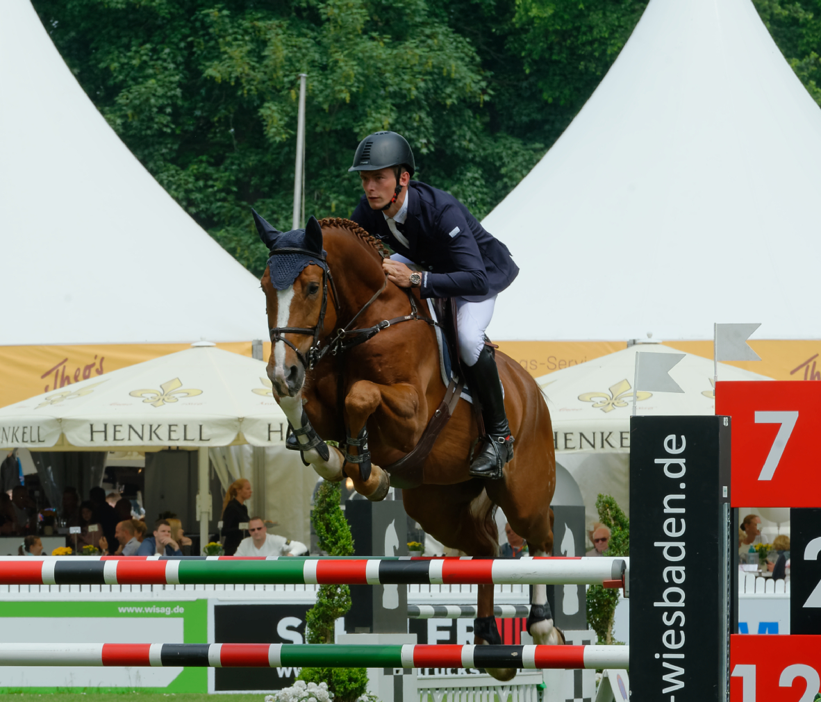 CSIYH* int. Springprüfung nach Strafpunkten und Zeit Internationales Pfingstturnier Wiesbaden 2015 The making of this document was supported by the Community-Budget of Wikimedia Germany.